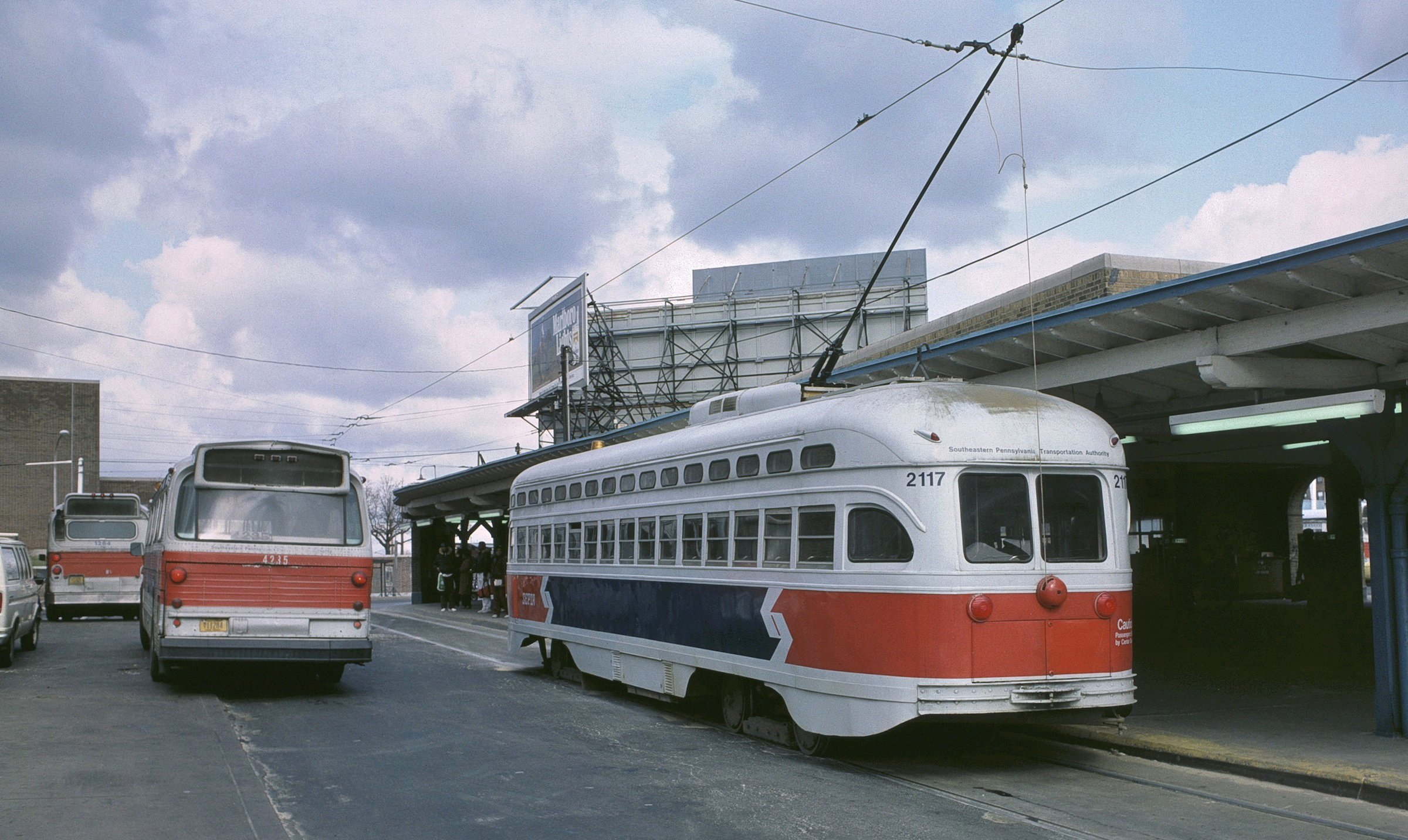 The surface transit loop at Olney Station, on Philadelphia's Broad Street subway line, in 1984, when it was still served by streetcars/trolleys (trams) on route 6. This view shows PCC-type streetcar 2117. On the left are buses 4235, a GM New Look bus (closest), and 1264, a Flxible New Look bus. Streetcar service at this location ended in mid-January 1986, when SEPTA route 6 was converted to buses.